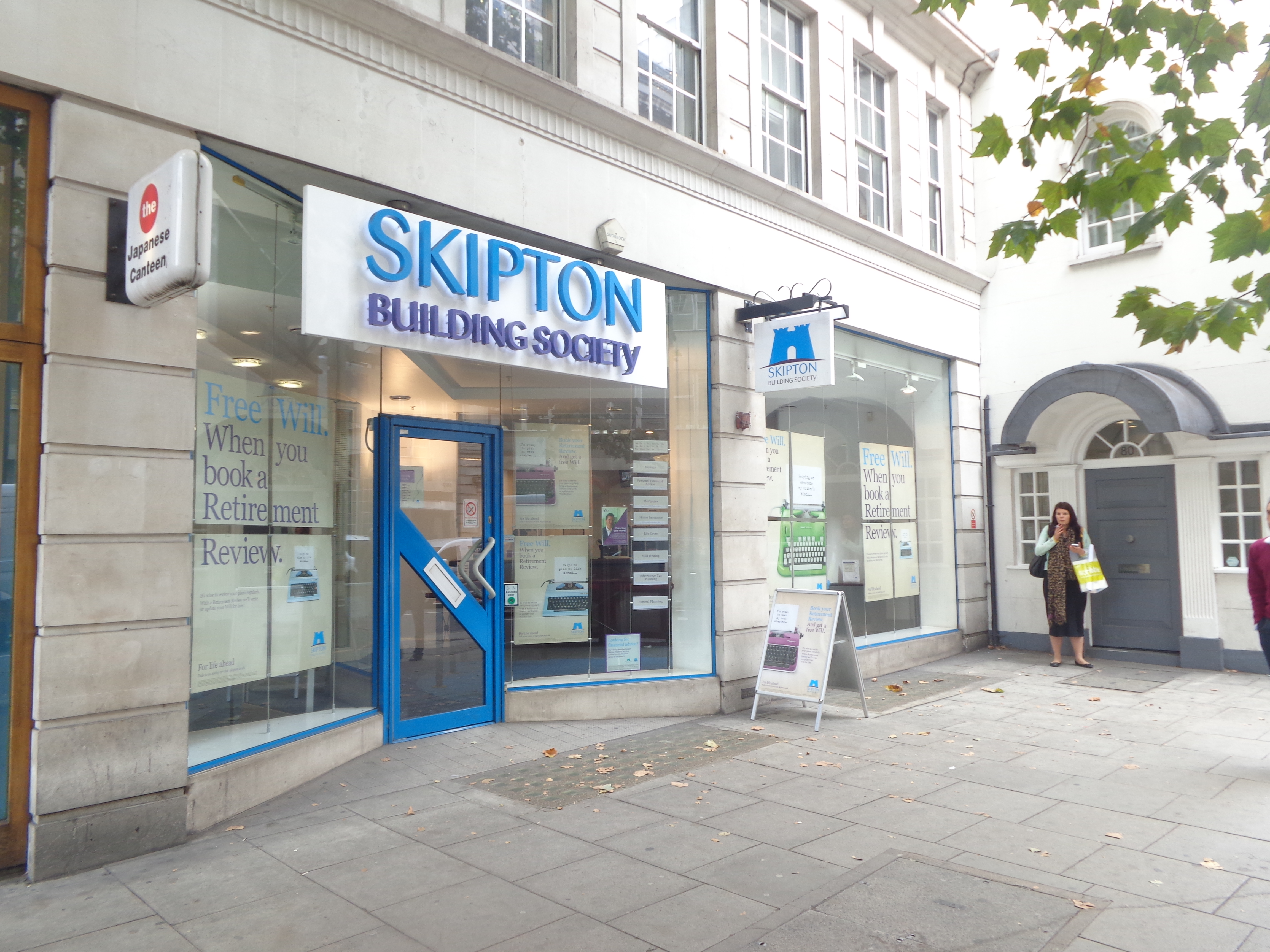 Skipton building society, High Holborn, London Borough of Camden. Taken on the afternoon of Thursday the 25th of September 2014.